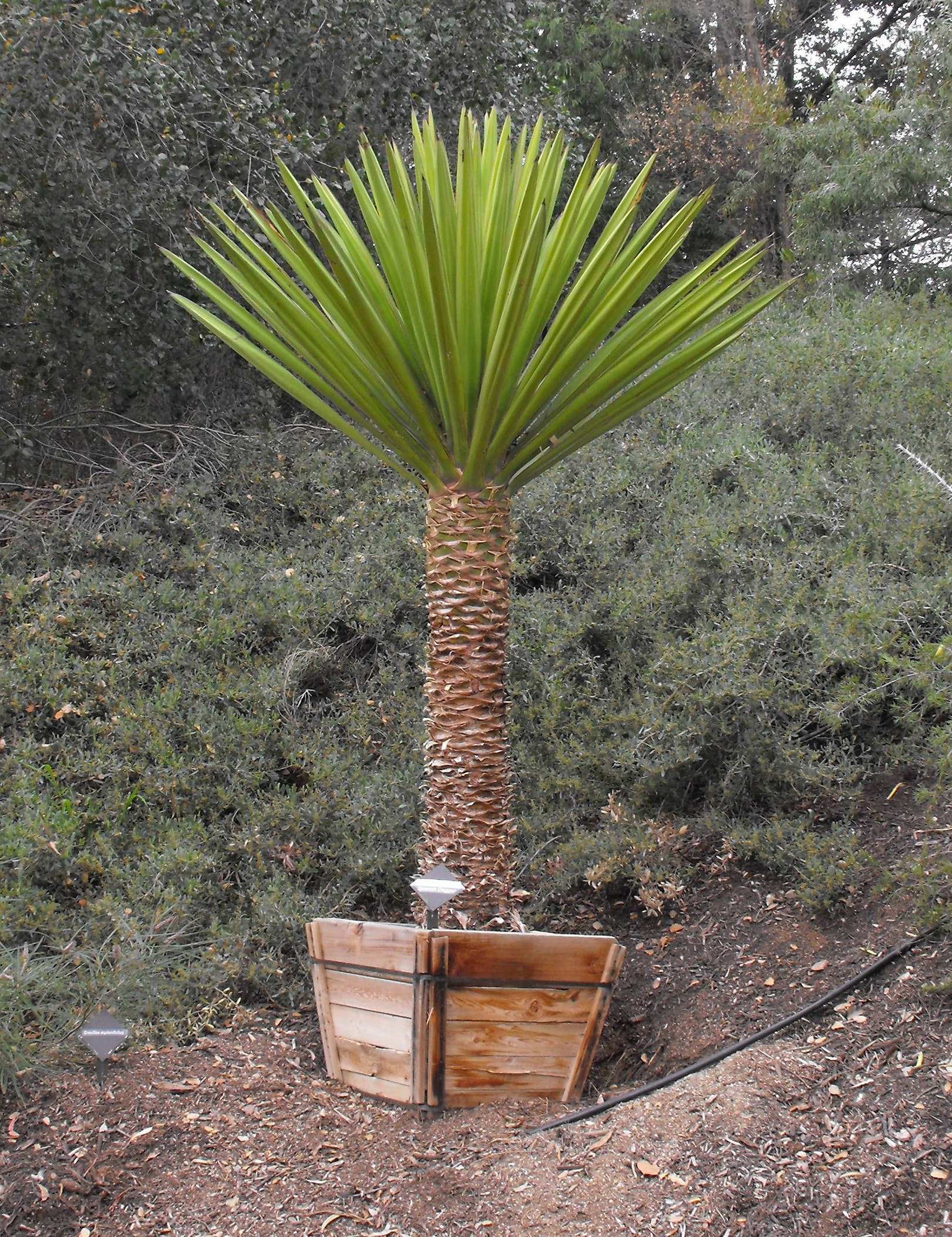 Yucca faxoniana in the Water Conservation Garden at Cuyamaca College, El Cajon, California, USA. Identified by sign.